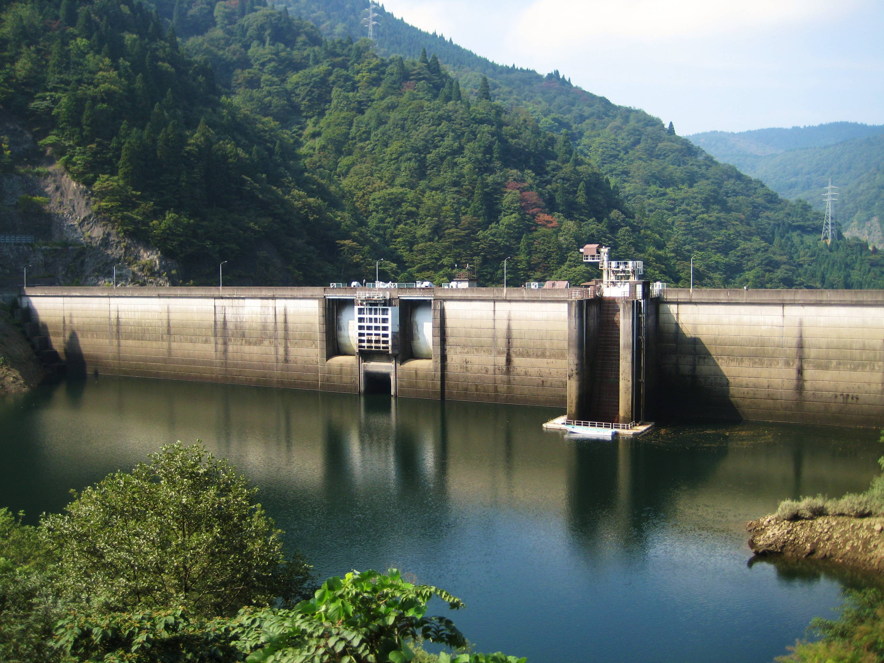 Oguchigawa Dam lake.